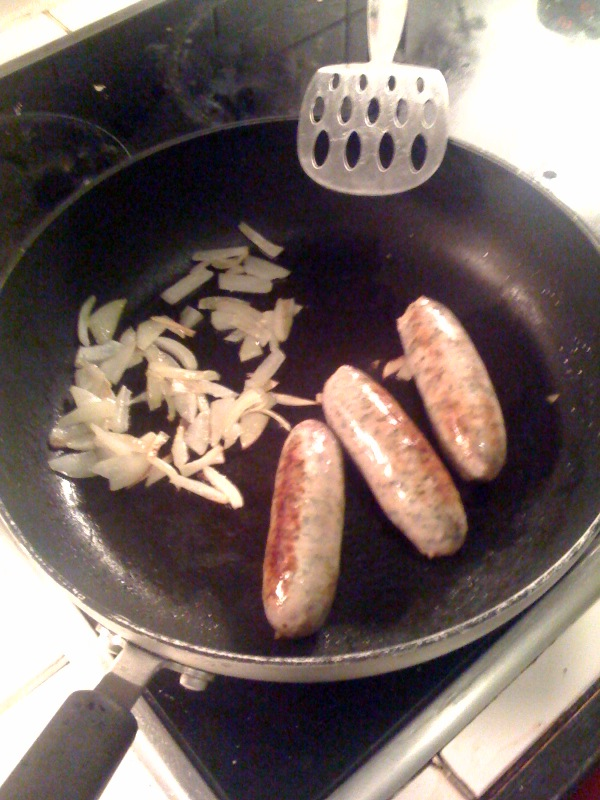 Lincolnshire sausages and onions, frying in a pan, cooked in London.